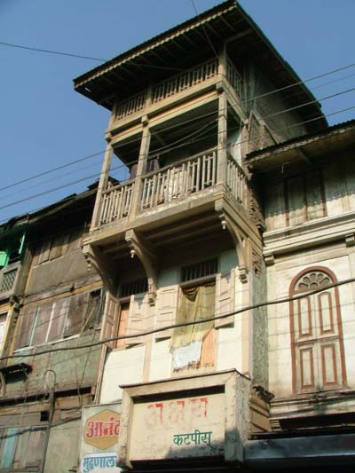 A wada in old Nashik